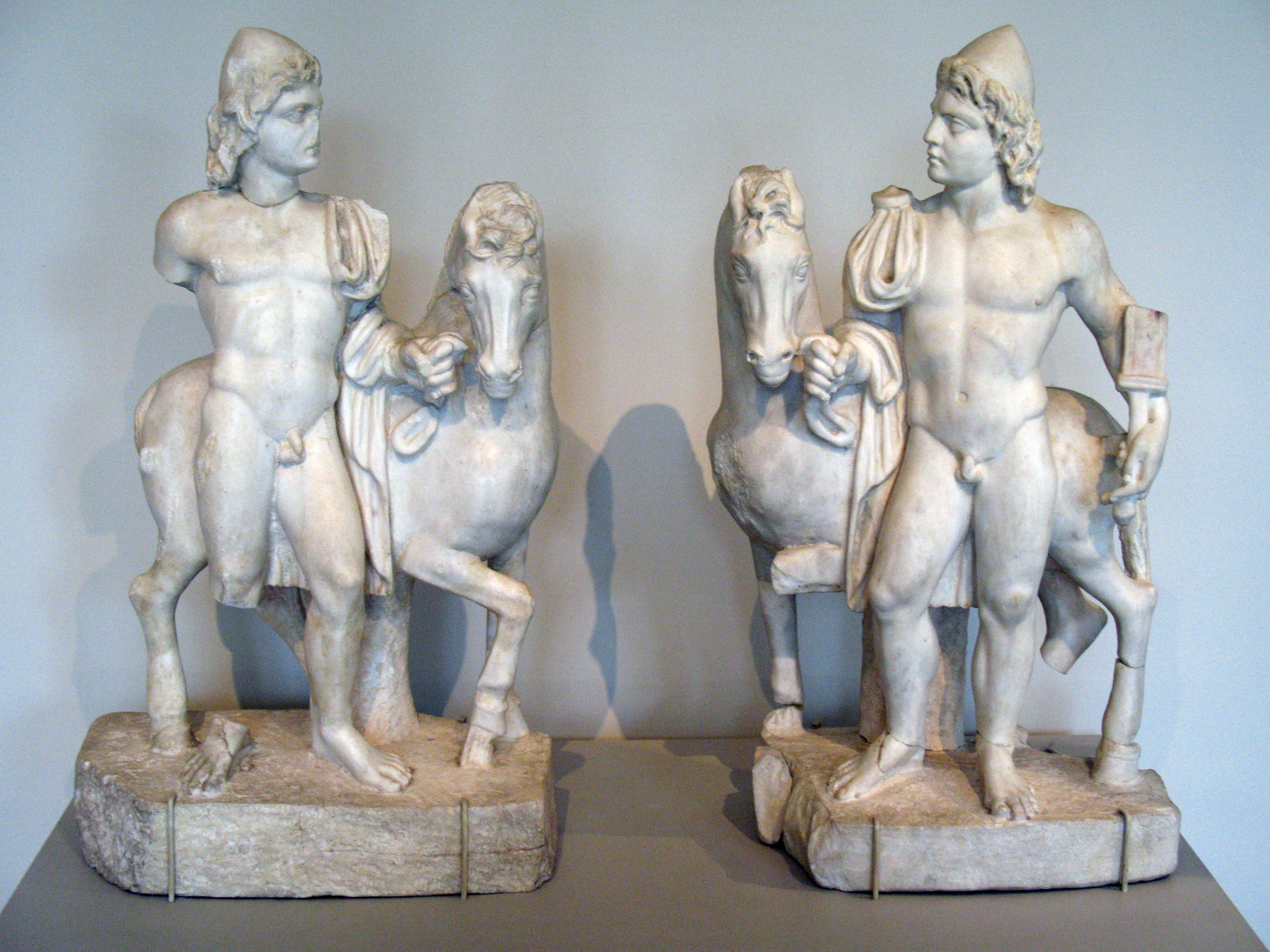 Marble statuettes of Castor and Pollux; Roman, first half of the 3rd century A.D.